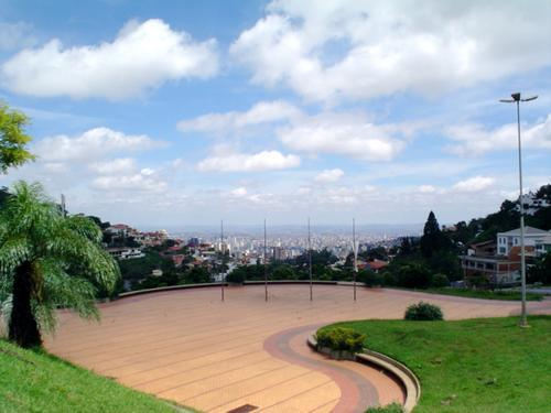 picture from belo horizonte i took myself